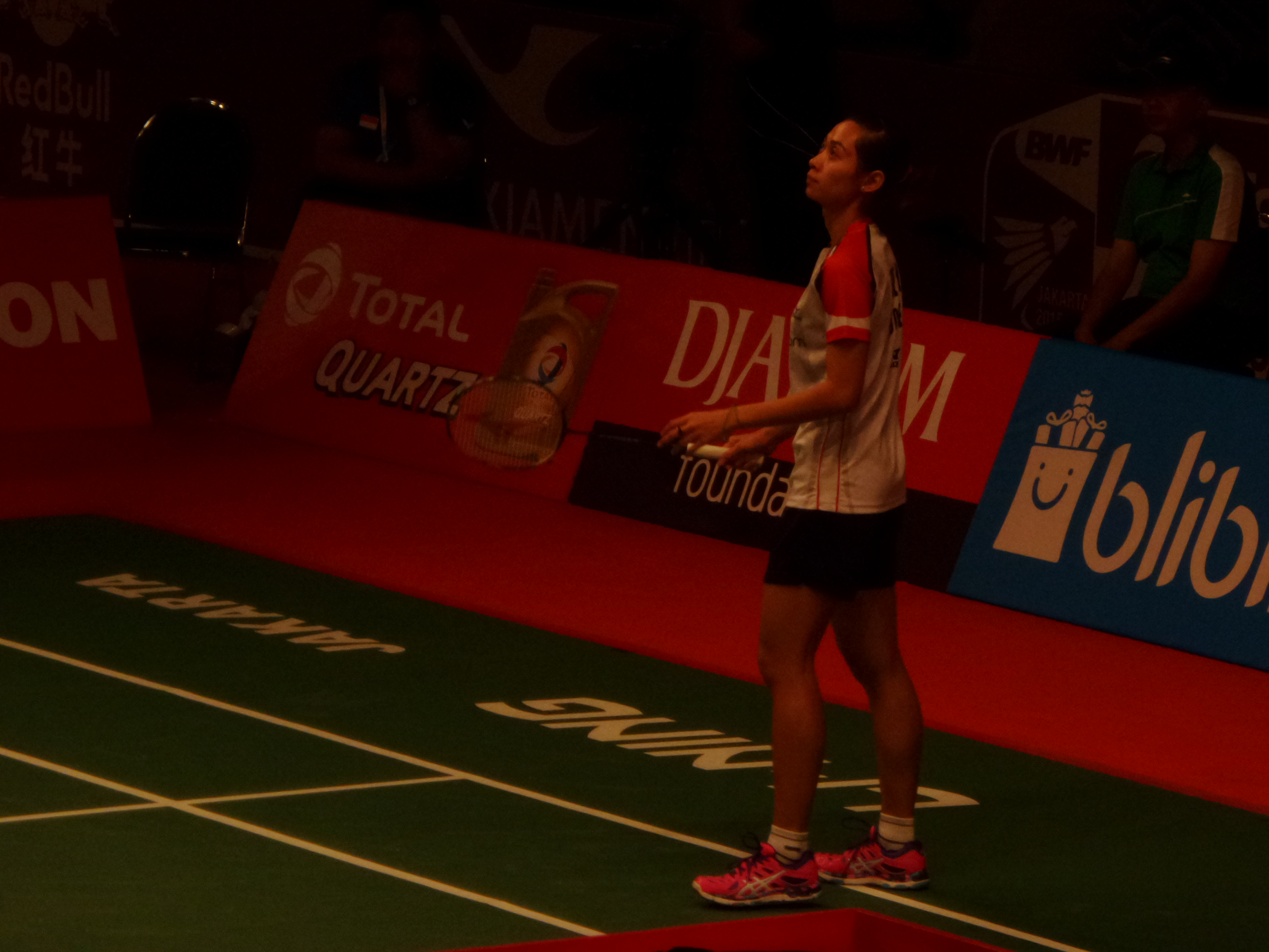 Maria Febe Kusumastuti in action during BWF World Championships 2015 Day 2